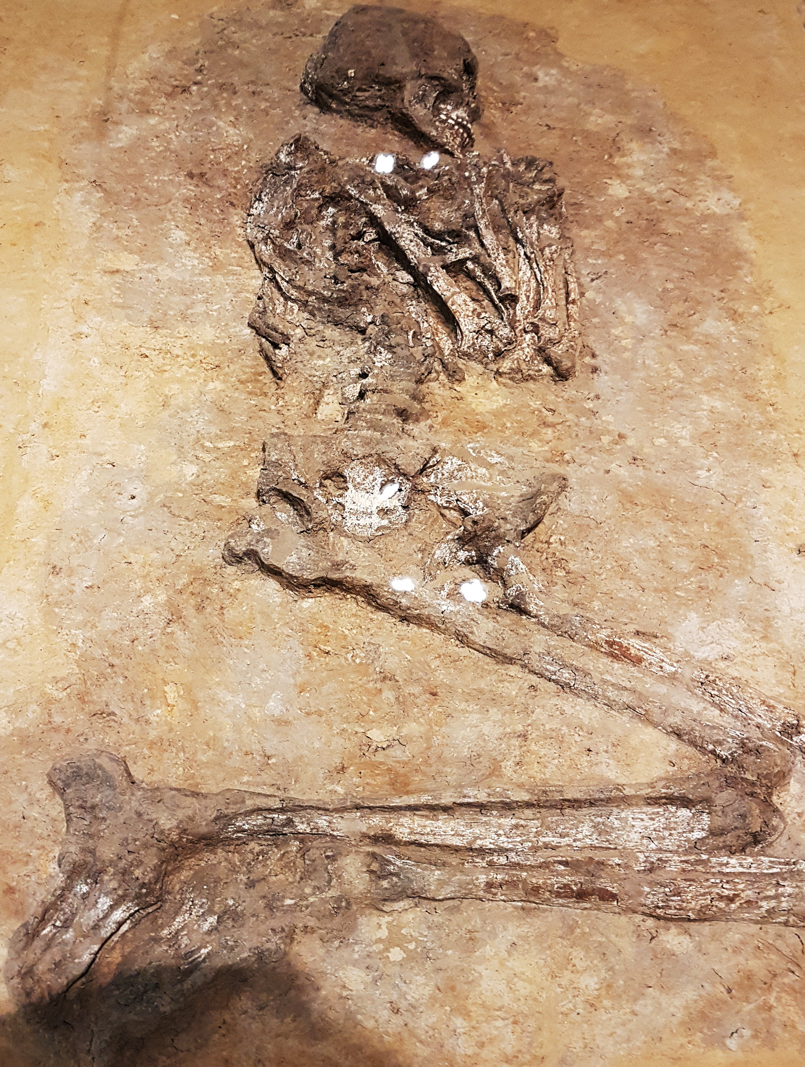 Neolithic Skeleton of a woman, located near by Düren-Arnoldsweiler, Germany